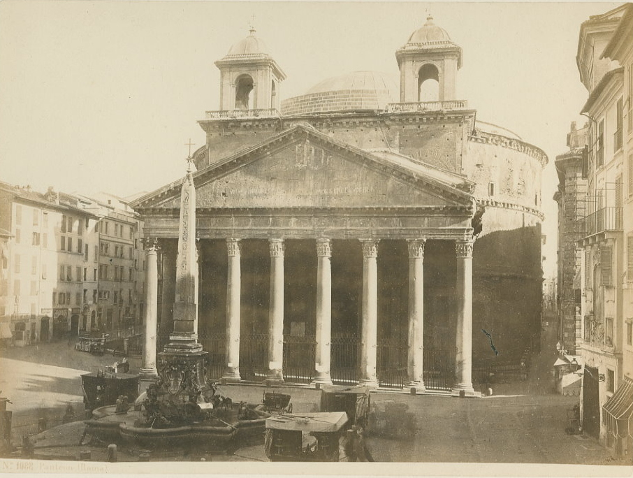 Edmond Behles (1841-1924) - "Pantheon (Rome)". Catalogue #: 1088.